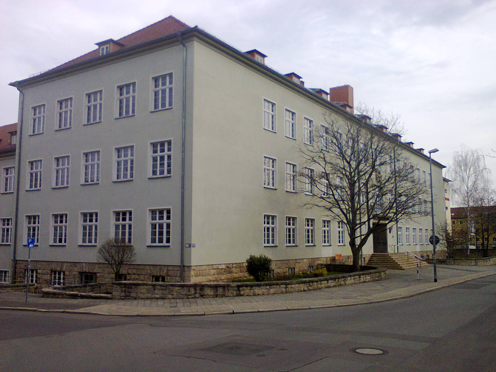 Heinrich-Mann-Gymnasium Erfurt